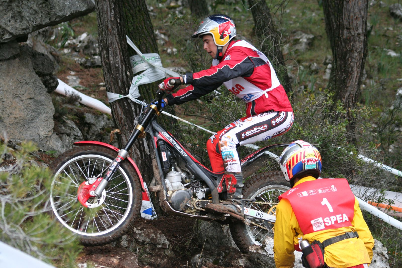 Adam Raga @ FIM Trial World Championship 2007 R1